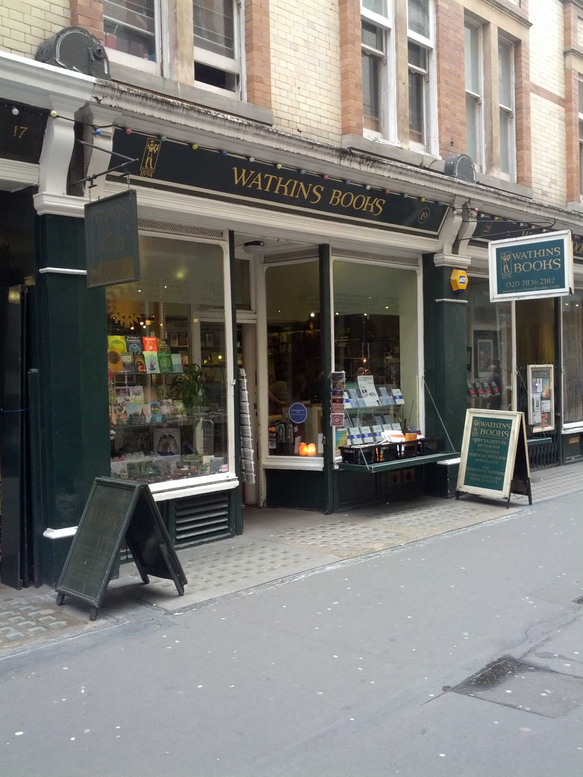 Watkins books in Cecil Court